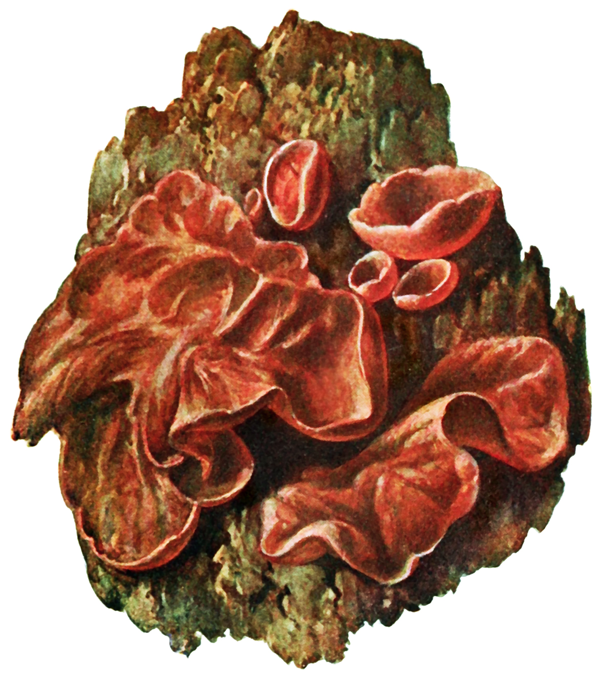 Auricularia auricula-judae.